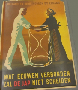 Dutch political poster against the Treaty of Linggadjati for Indonesian independence. Nationaal Comité Handhaving Rijkseenheid, around 1947